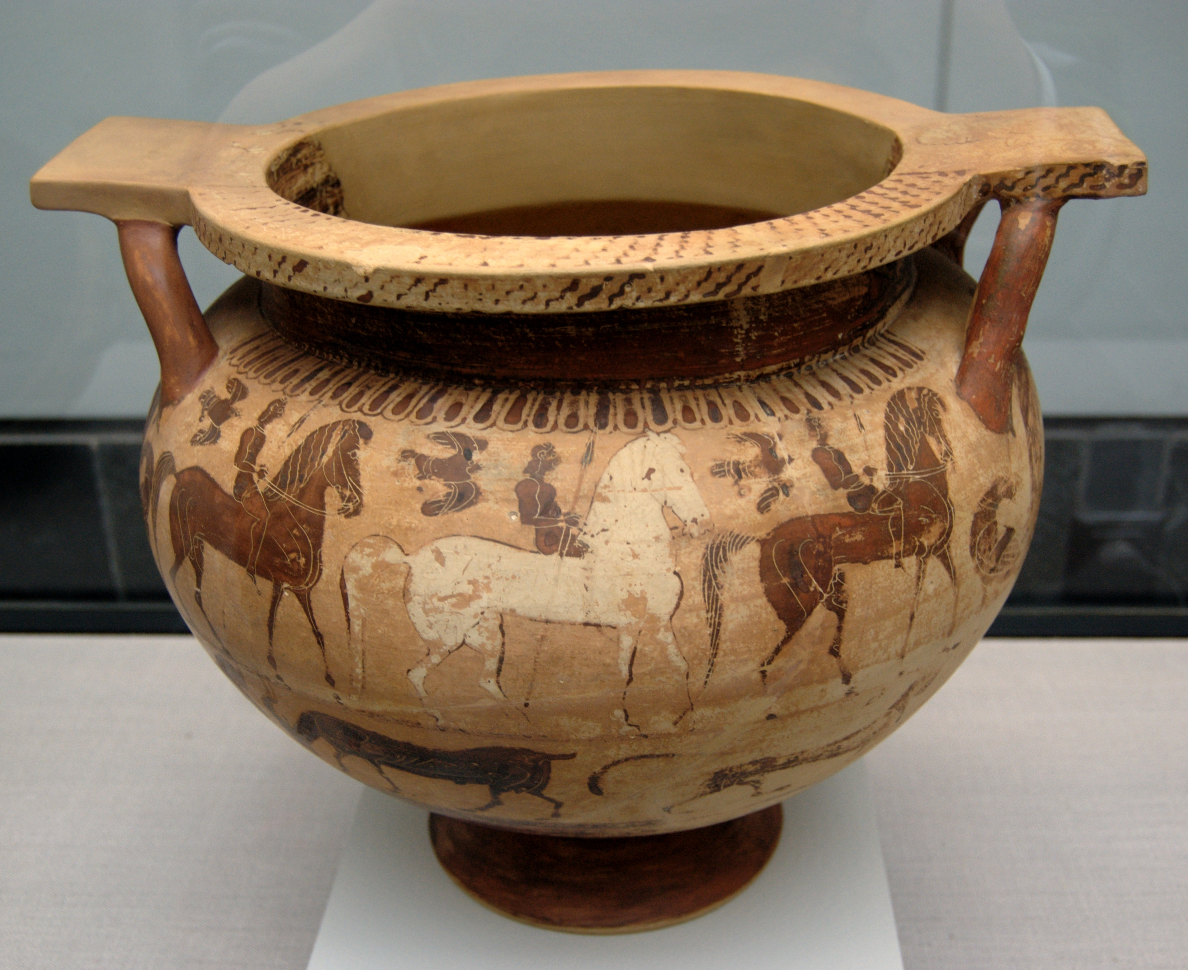 Corinthian krater, ca. 550 BC.